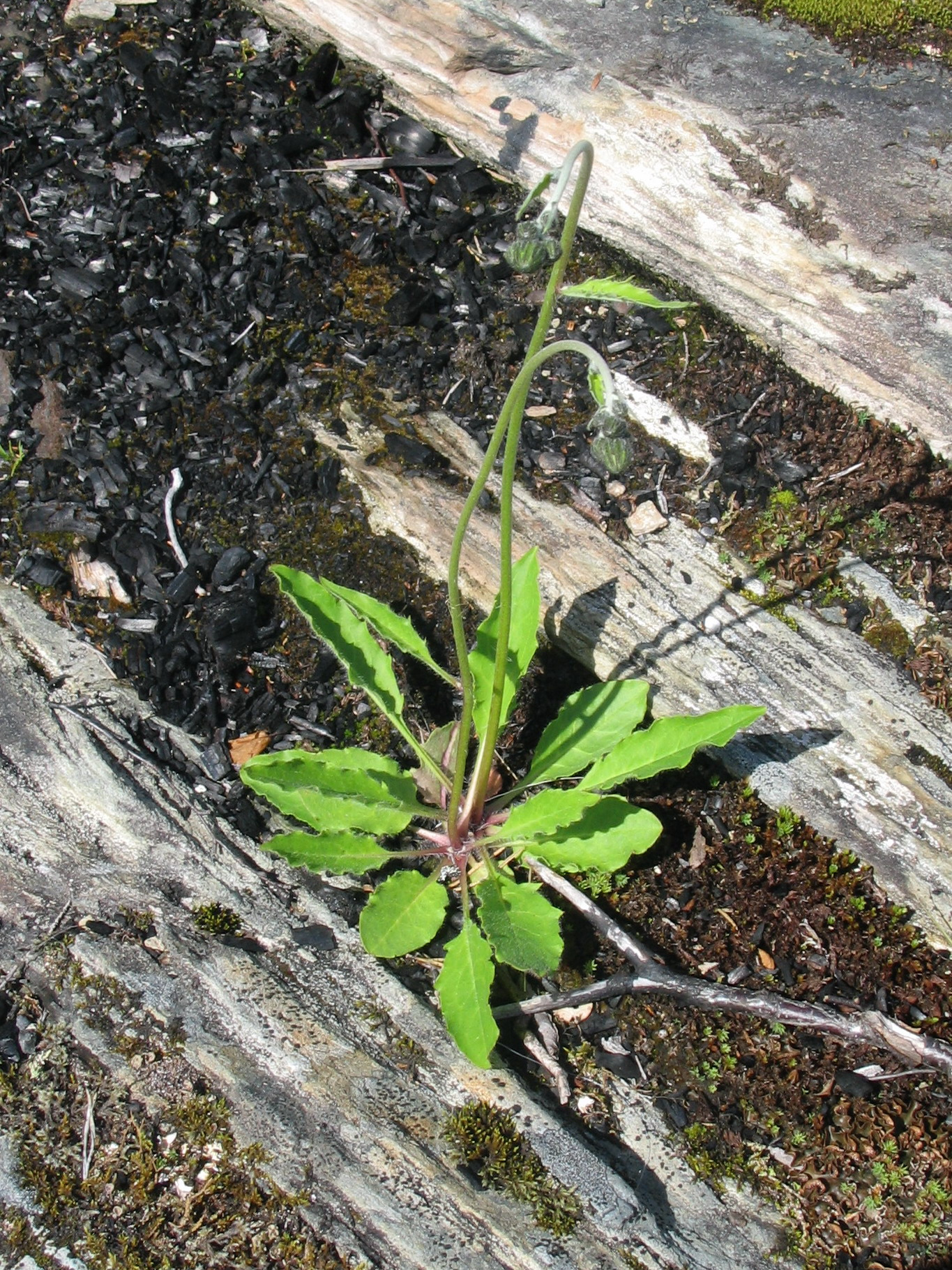 Hieracium sp., probably Hieracium schmidtii s.lat.